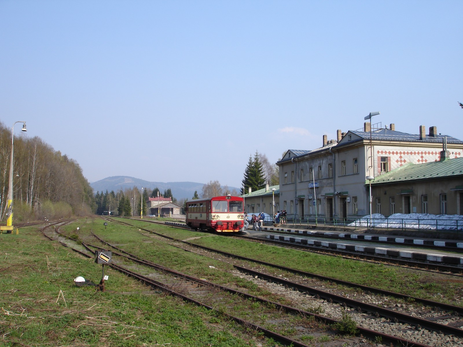 station Korenov, czech republic